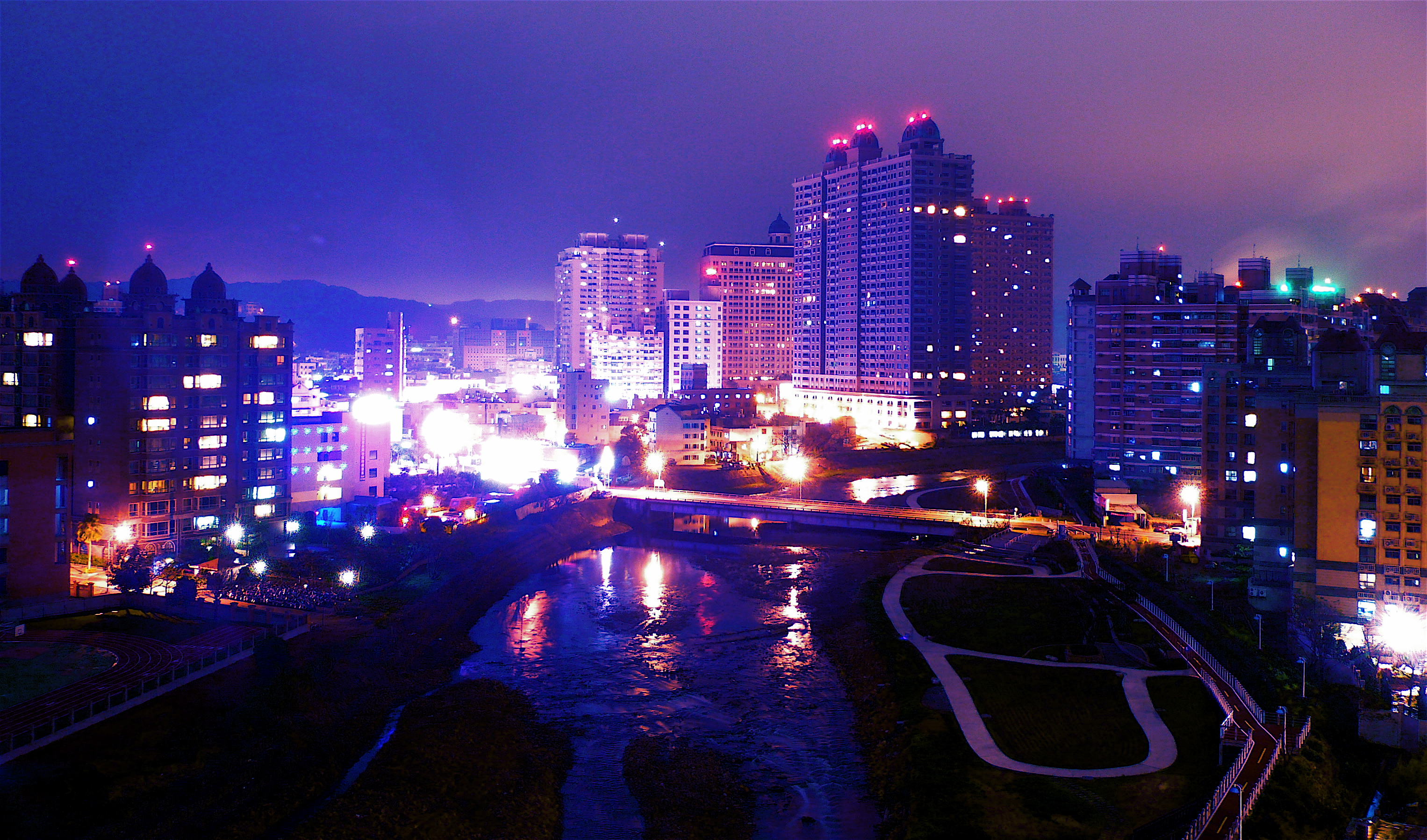 New apartment towers overlooking the Nankan Creek in the Nankan area, Luchu Township, Taoyuan County, Taiwan. With real estate prices going through the roof in Taipei, many Taipei-ites are now migrating further away from the city to upscale developments in former farming or industrial areas like Nankan.